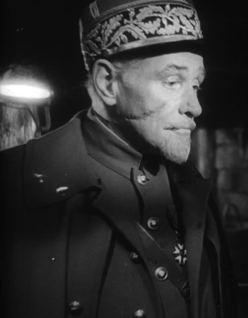 George Macready in trailer for "Paths of Glory" (1957)